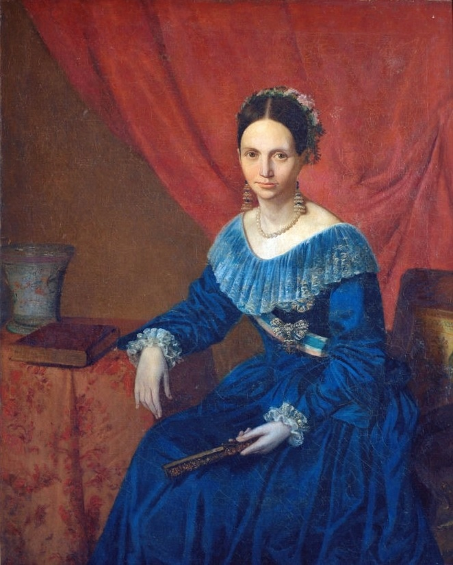 Portrait of Isabel Maria of Braganza, Infanta of Portugal (1857), attributed to José Rodrigues. Fundação da Casa de Bragança.